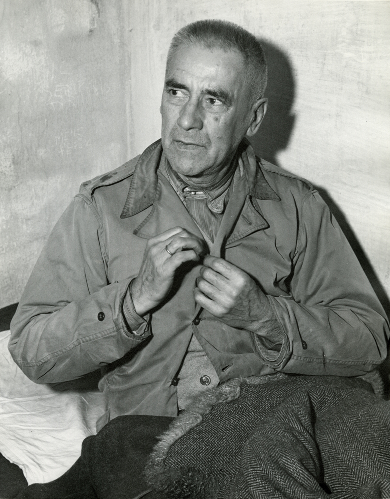 German Nazi party member and author of the Nuremberg Race Laws Wilhelm Frick, photographed in his jail cell at Nuremberg, Germany, during the Nuremberg Trials. Gelatin silver process on paper. 28 cm. x 35.3 cm. Courtesy of the Harvard Law School Library, Harvard University, Cambridge, Mass.